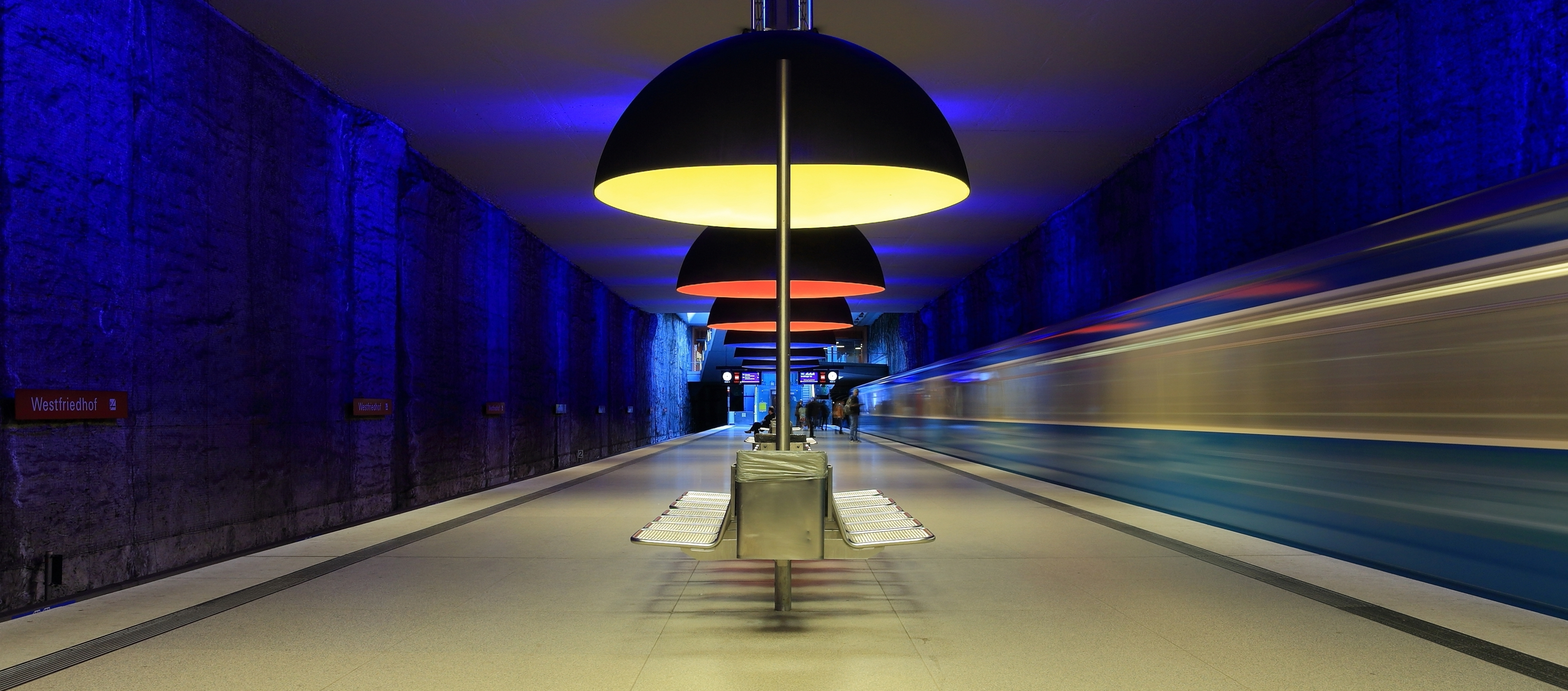 Munich subway station Westfriedhof